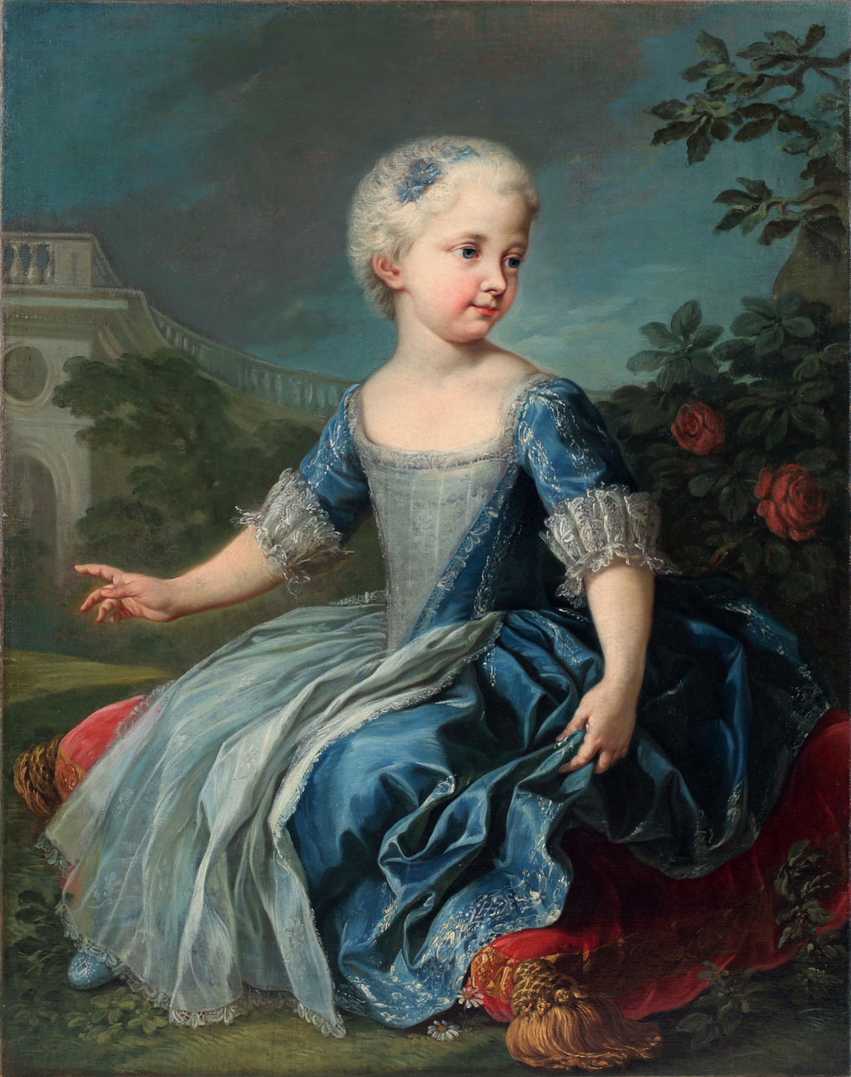 Portrait of Princess Eleonora of Savoy (1728-1781), daughter of Charles Emmanuel III of Sardinia.